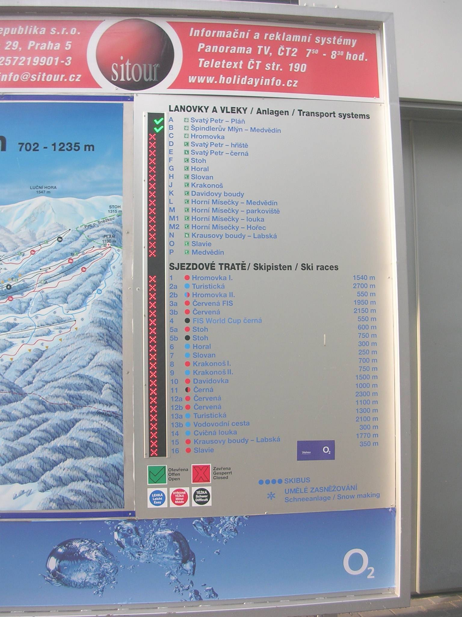 Špindlerův Mlýn, a map of ski areal.